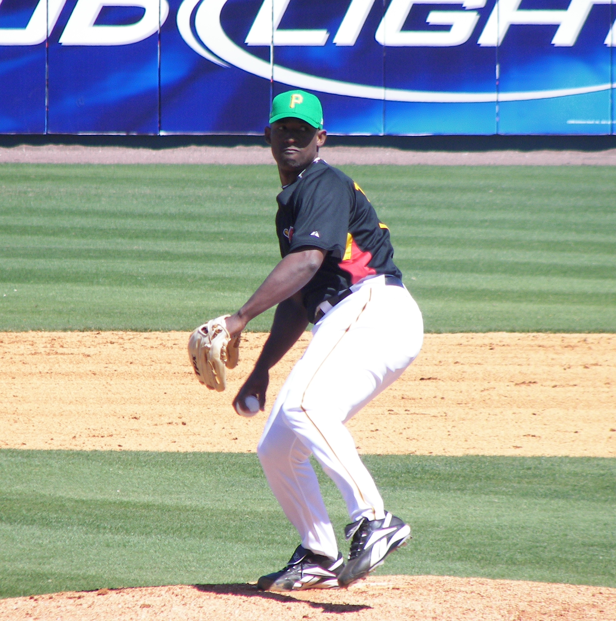 Pittsburgh Pirates pitcher Salomón Torres during a Pirates/Minnesota Twins spring training game at McKechnie Field in Bradenton, Florida.